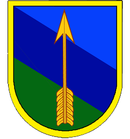 Official Seal of the AFP Special Operations Command.